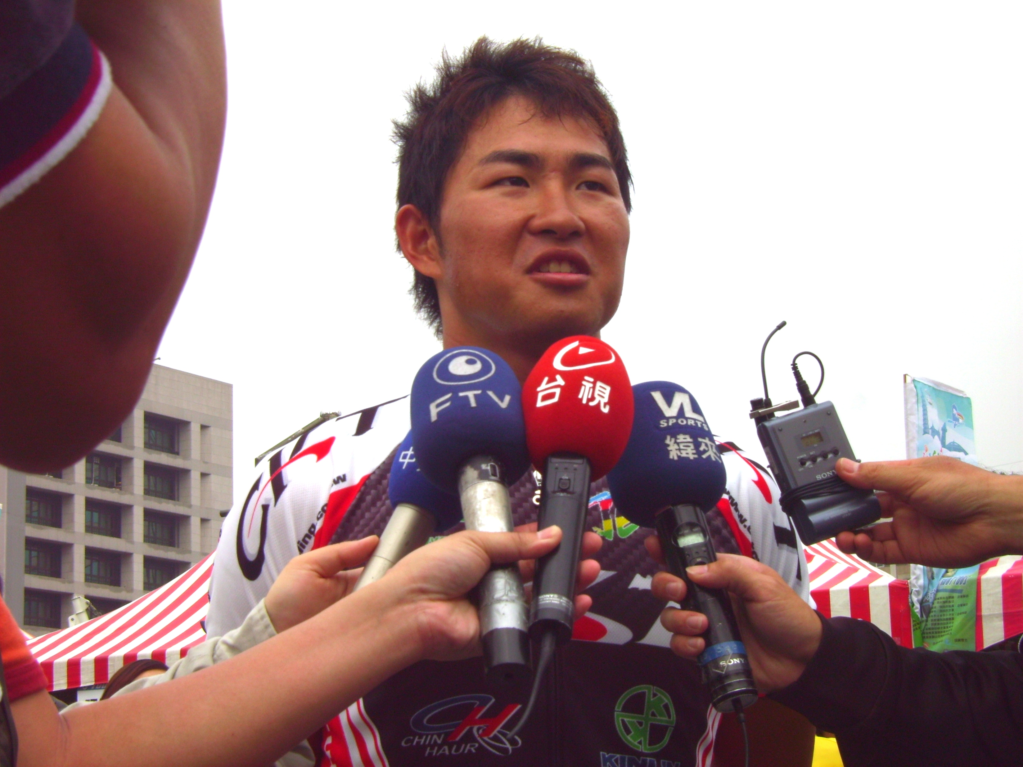 Tour de Taiwan 2007: Taiwan CKT cyclist Po-Hung Wu.